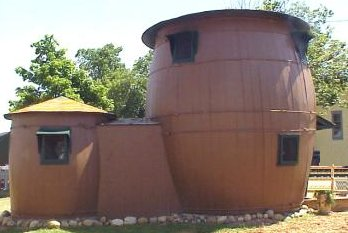 The Pickle Barrel House in Alger County, Michigan, United States, is listed on the US National Register of Historic Places (NRHP). It is currently operated as a house museum. NRHP reference number 03001548